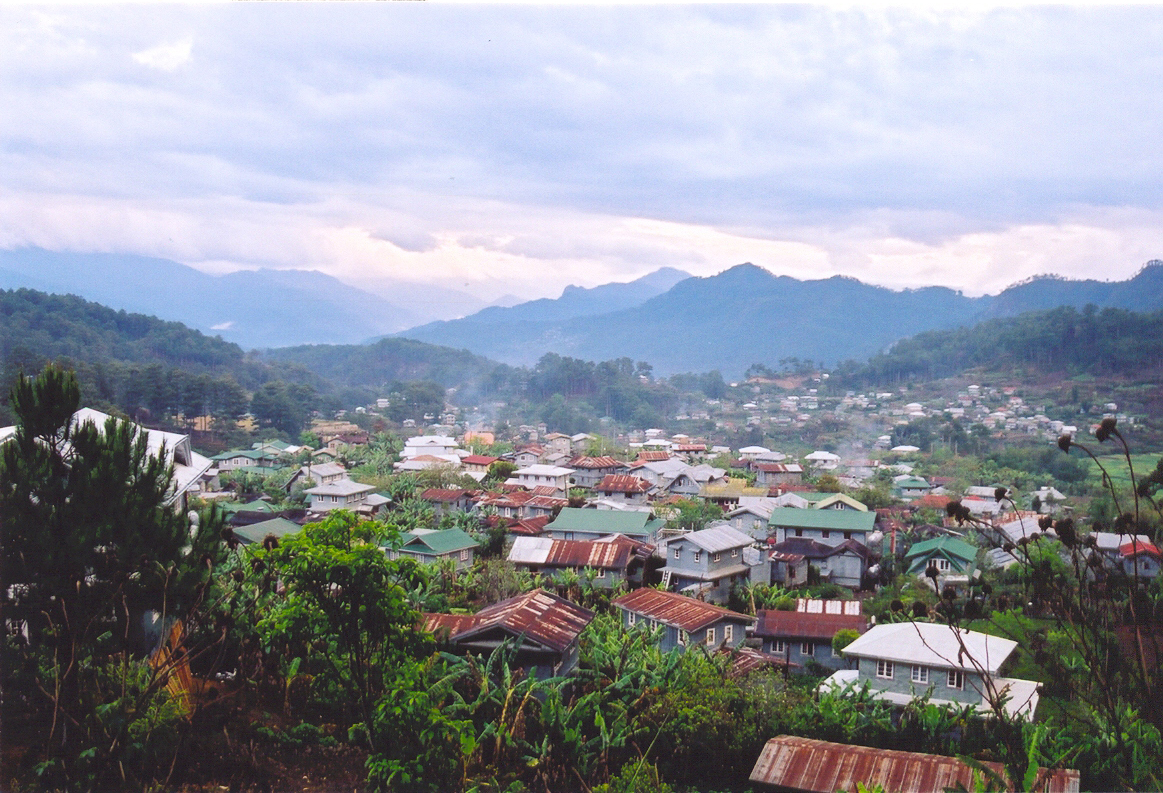 View over Sagada municipality in Mountain Province, the Philippines Picture taken by Magalhães in 2003